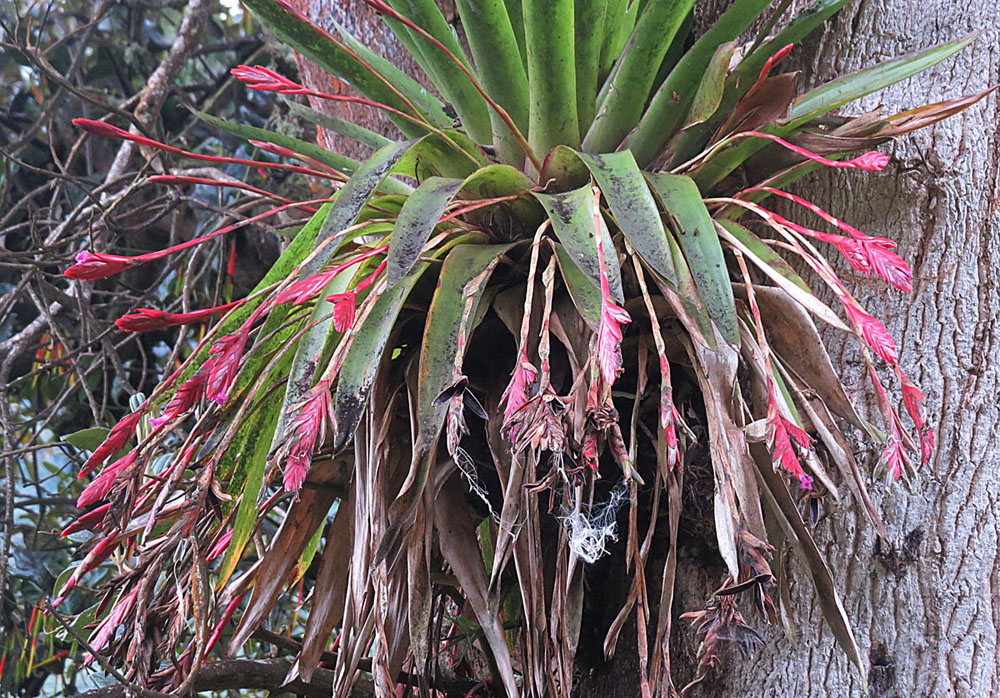 Native to the highlands from Costa Rica to Bolivia. Photo from Papallacta Hotsprings area in Ecuador, where it is known as Guycundo. In context at